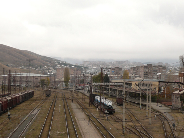 Railroad station of Vanadzor.